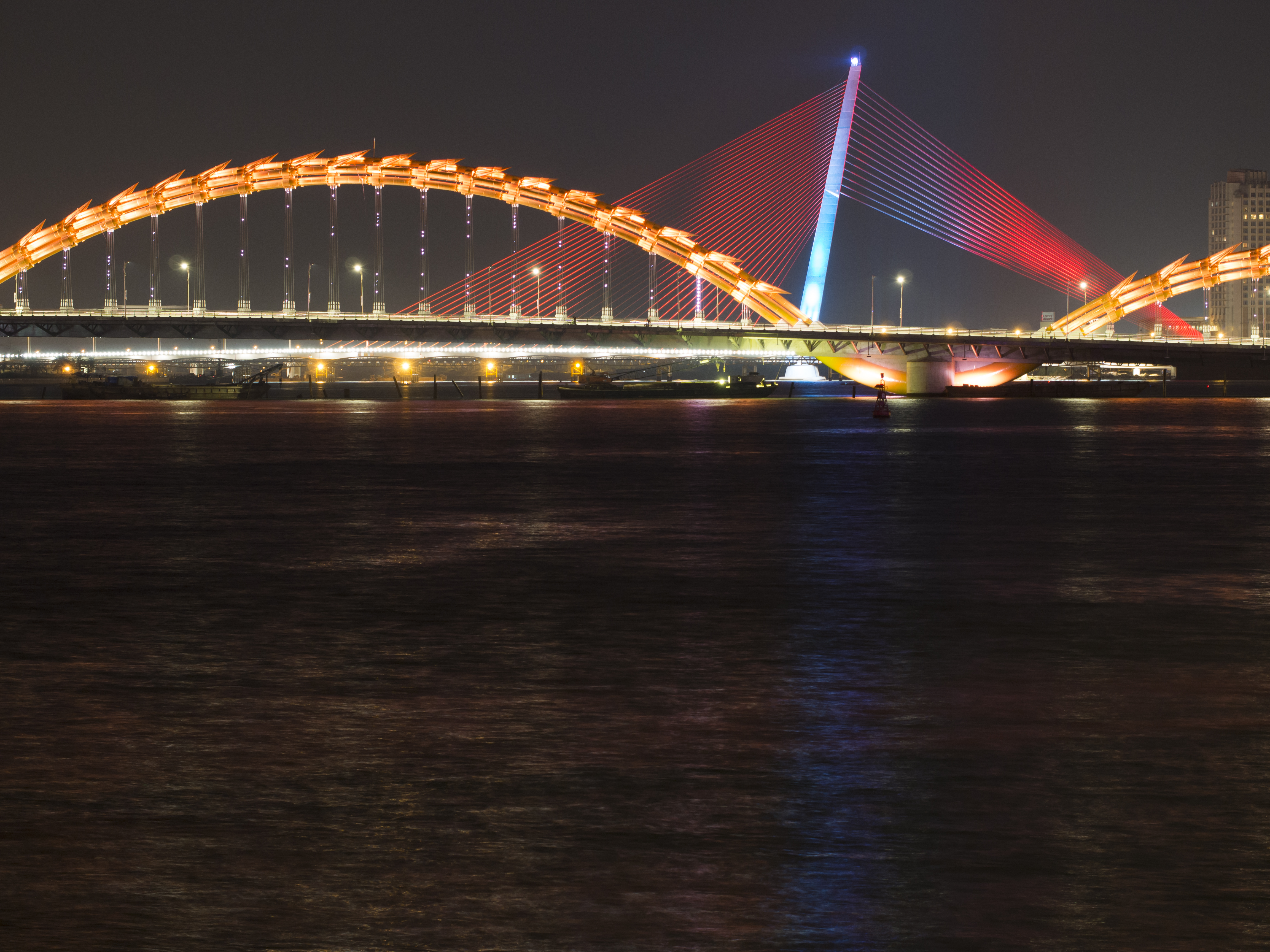 Dragon bridge and Trần Thị Lý (the name of a female hero) bridges.